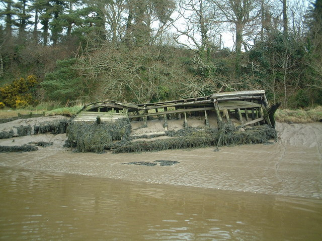 Wooden wreck, King's Channel, Waterford The remains of two wooden vessels lie together on the north bank of King's Channel on the west side of Little Island, c 200m east of the ferry.